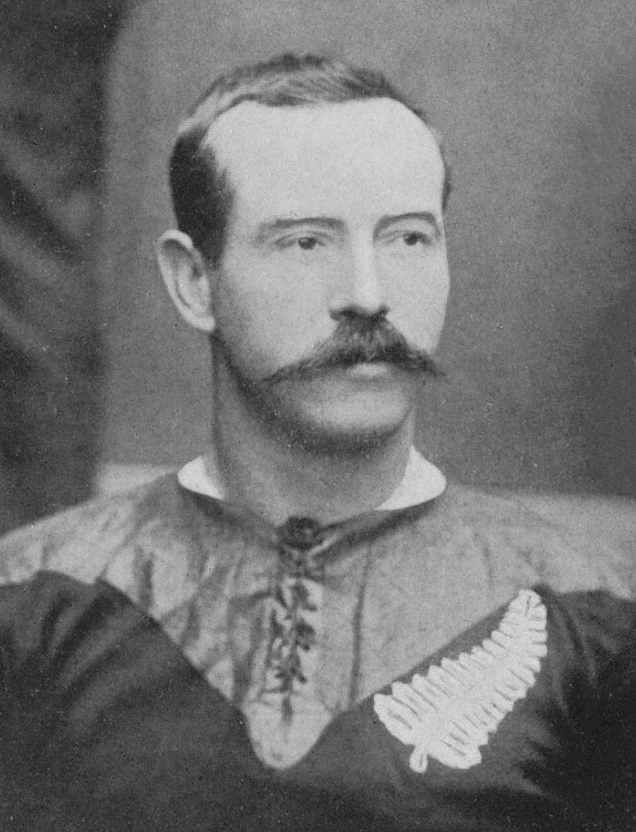 Portrait of DaveGallaher. From: The king and his navy & army. A weekly illustrated journal for society, the salon and the services. 1905. Auckland Libraries.